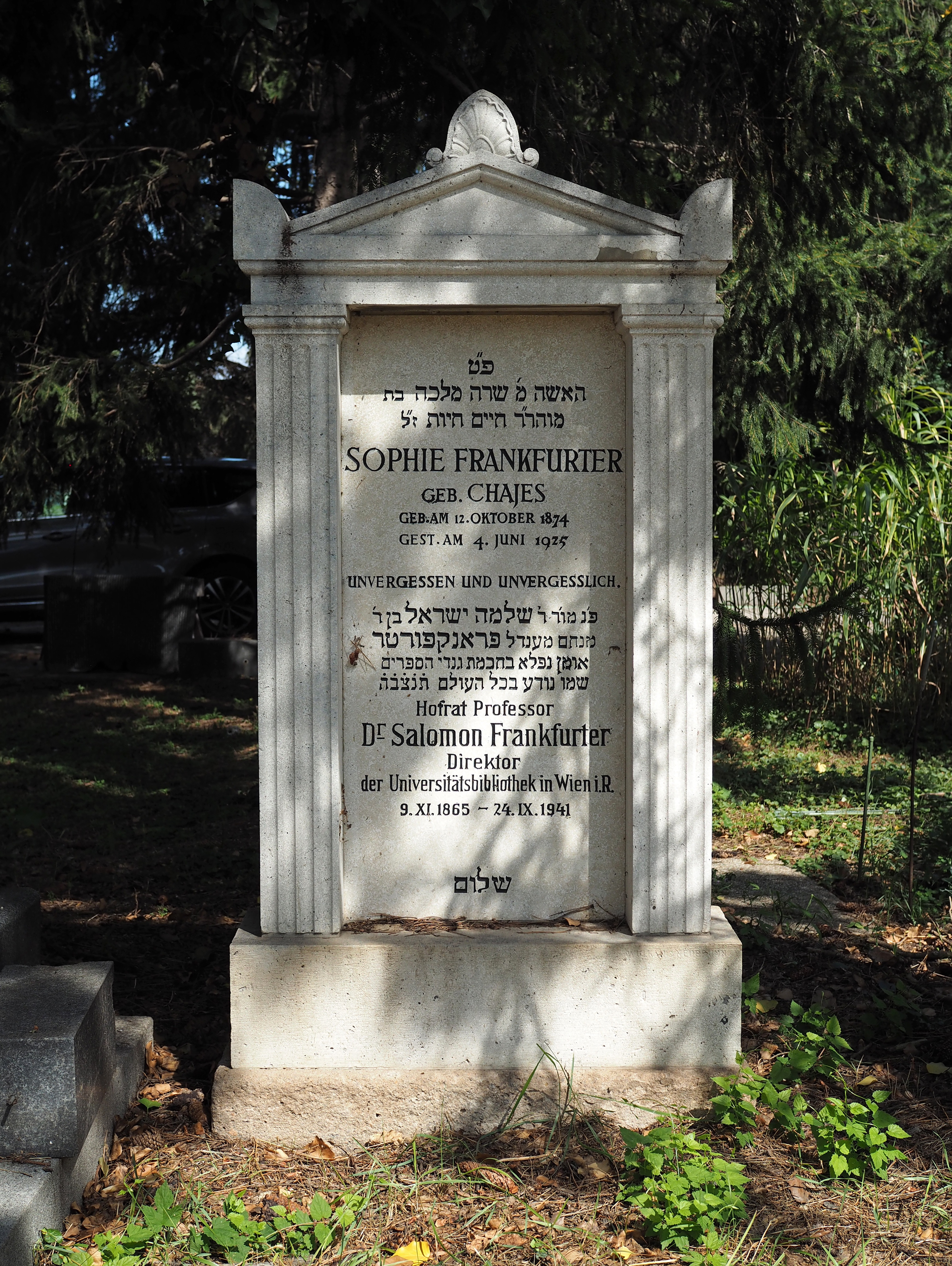 Grave of Salomon Frankfurter (director of the Vienna University Library) and his wife Sophie (nèe Chajes) in the new Jewish part of the Vienna Central Cemetery (2/3/16)